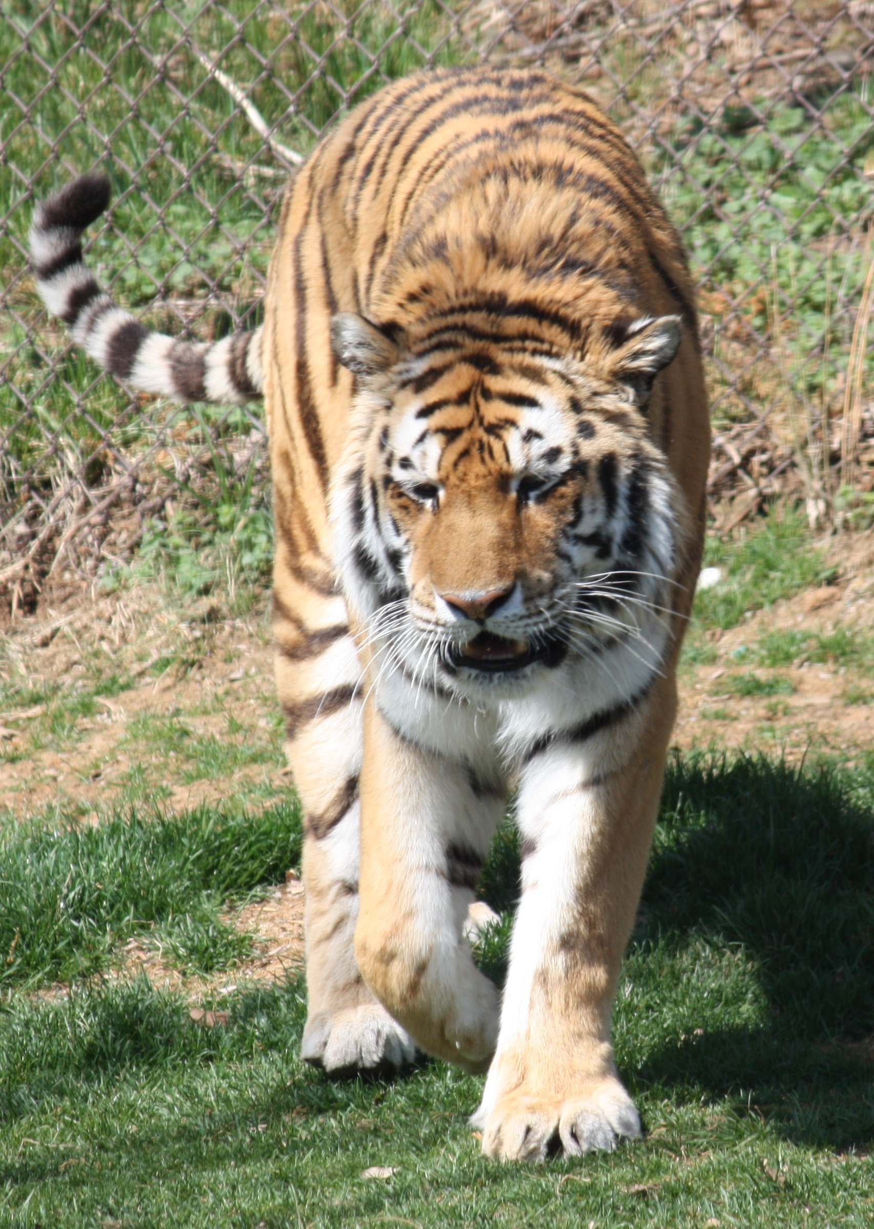 Amur Tiger (Panthera tigris altaica) at the Louisville Zoo